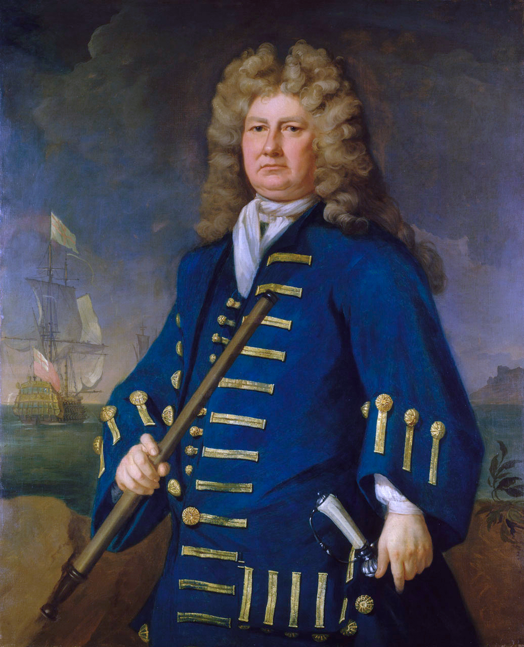 Sir Cloudesley Shovell, 1650-1707. Oil on canvas